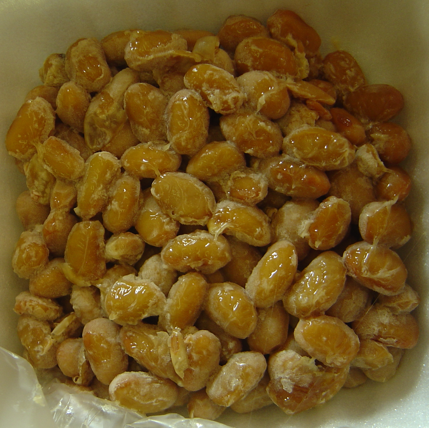 Natto